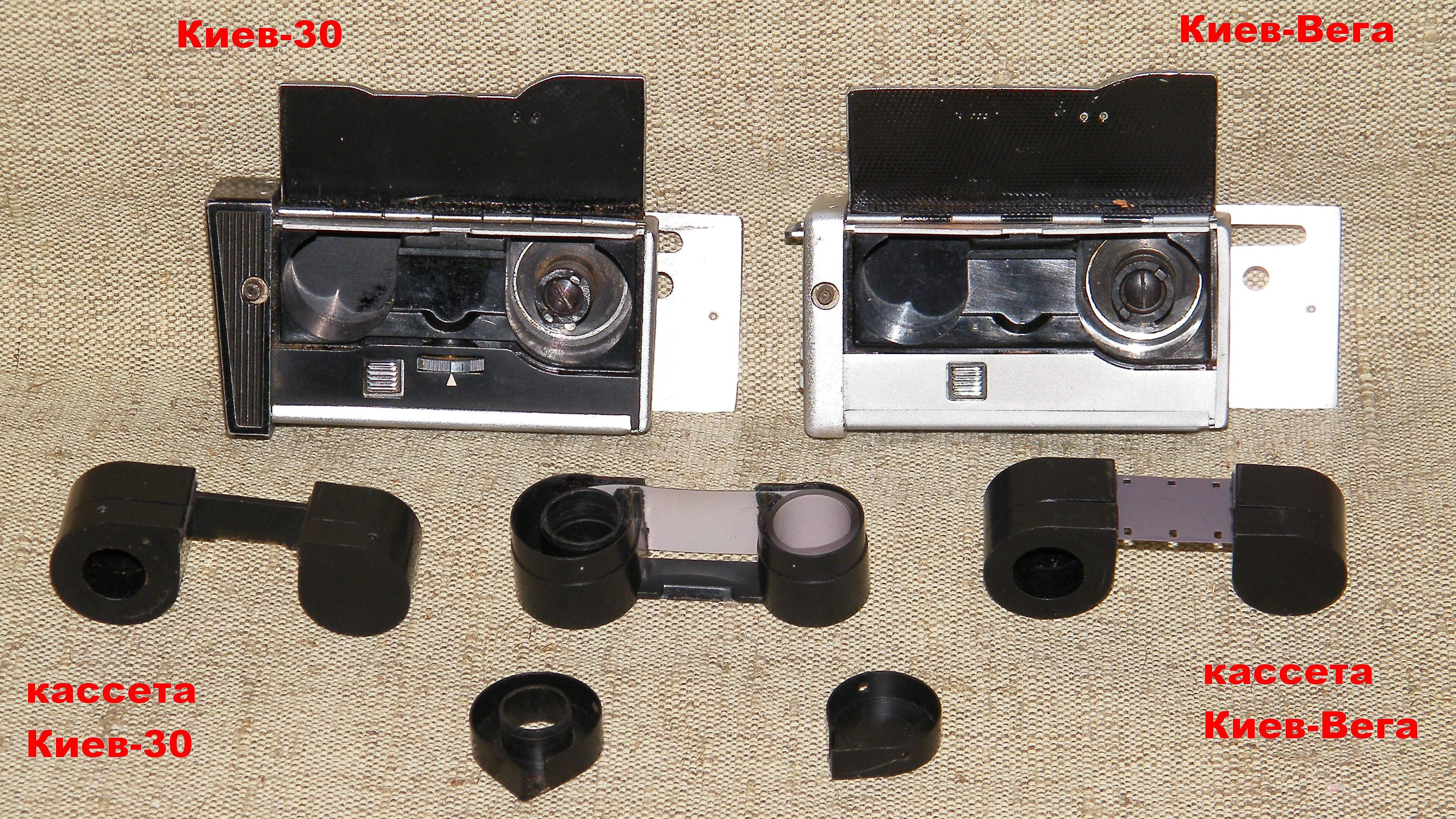 Киев-Вега и Киев-30 с кассетами